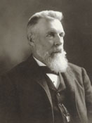 Horace Davis, US Representative from California